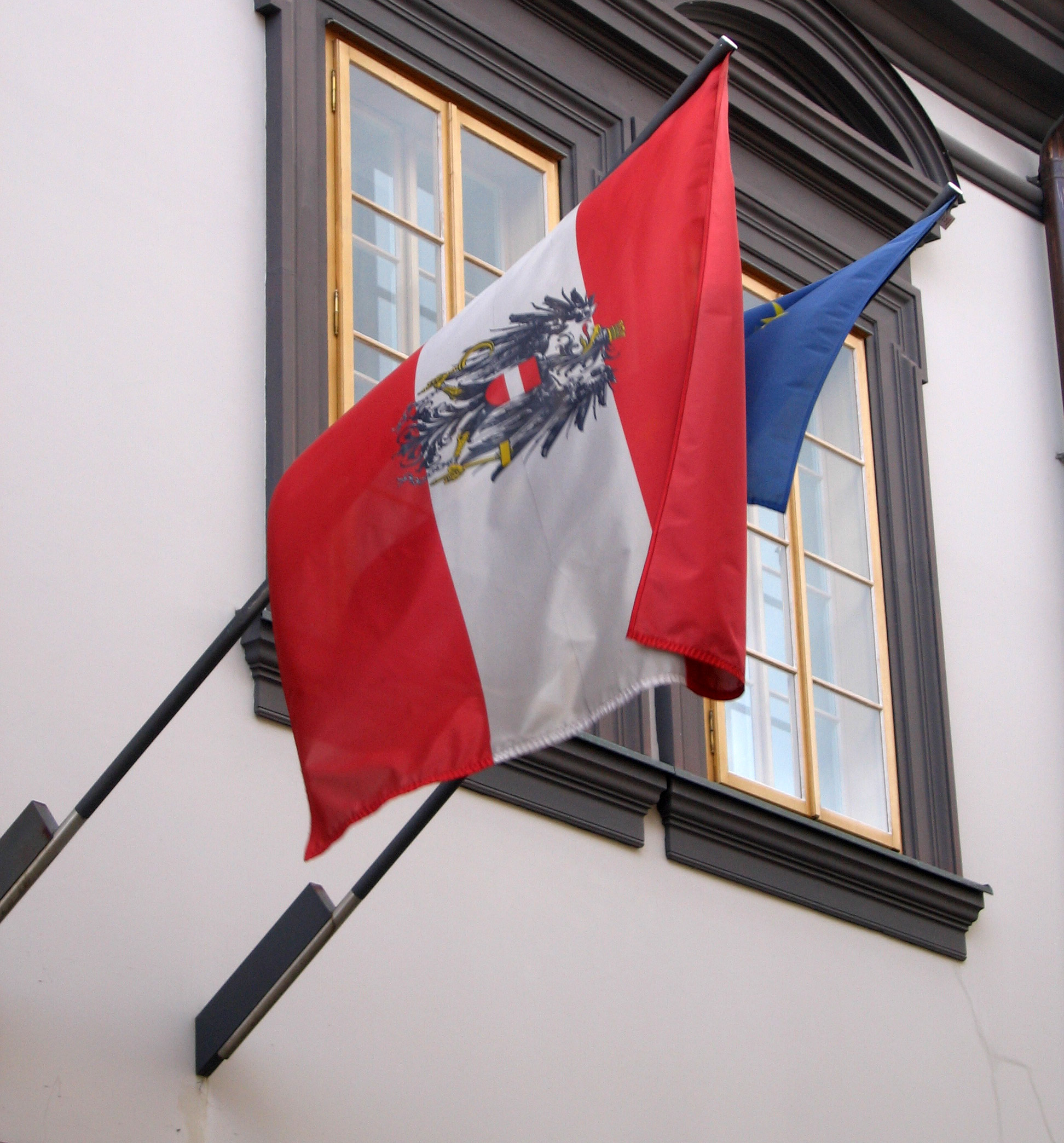 Flag of Austria in Vilnius (Lithuania) Austrian Embassy